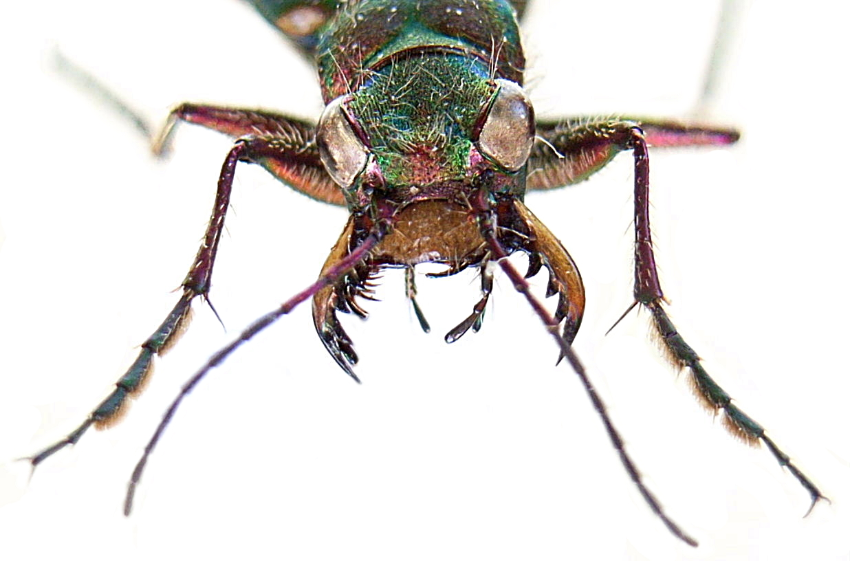 head of Cicindela campestris, without left Maxille for better view of the teeth of Mandibel